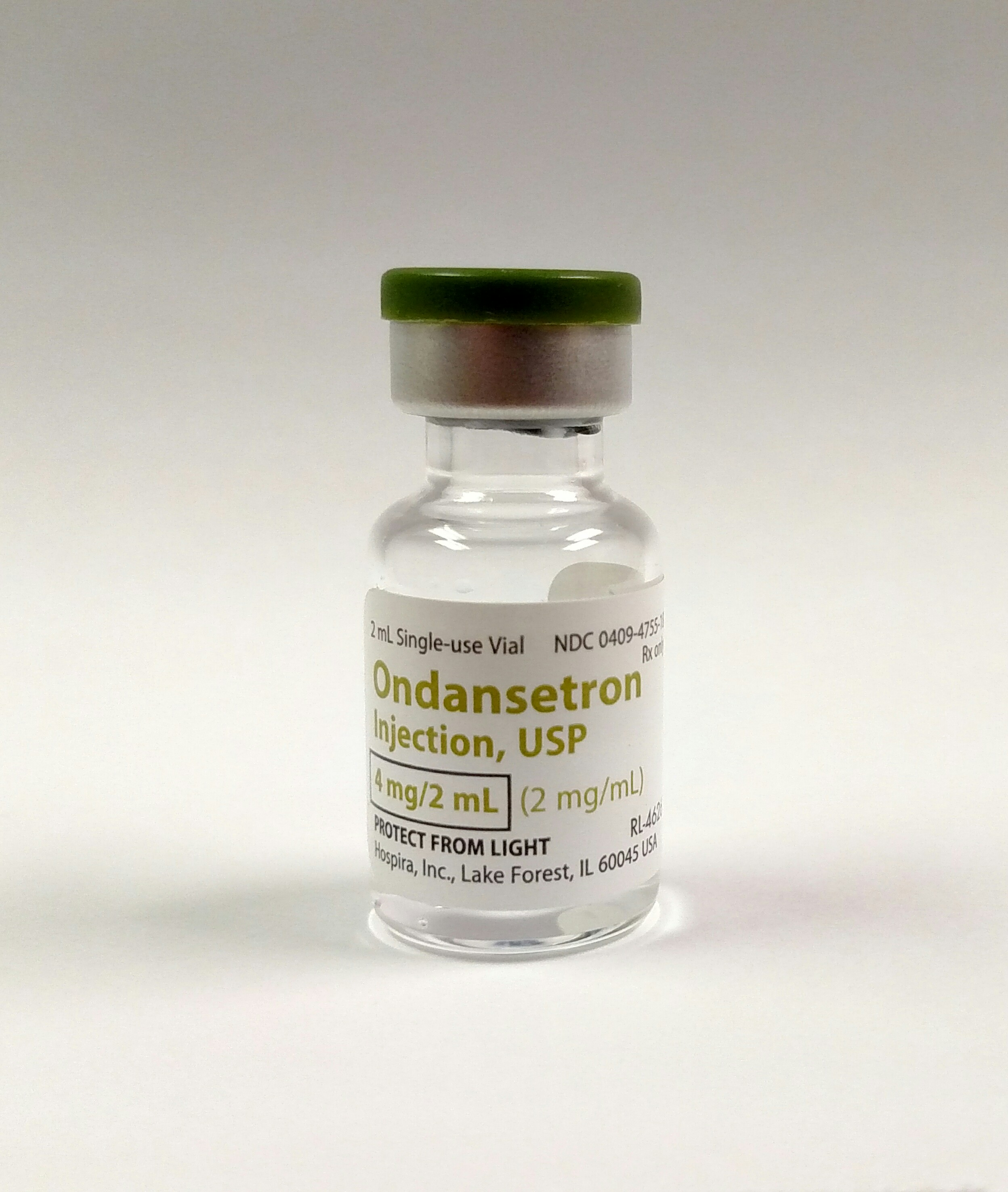 Ondansetron preparation, single dose vial for intravenous administration.